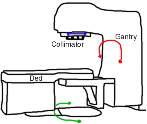 Linac illustration